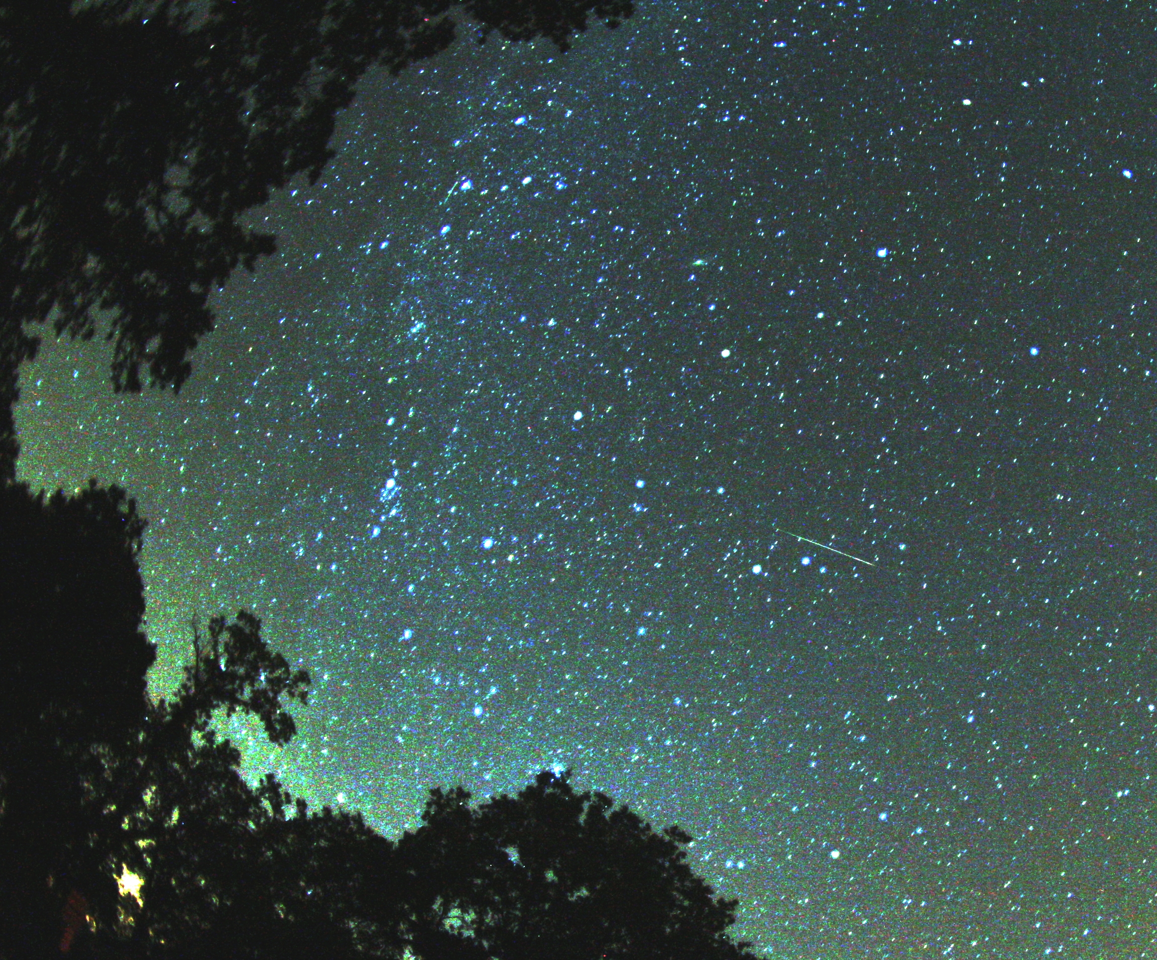 A multicolored Perseid meteor striking the sky just to the right from Milky Way.